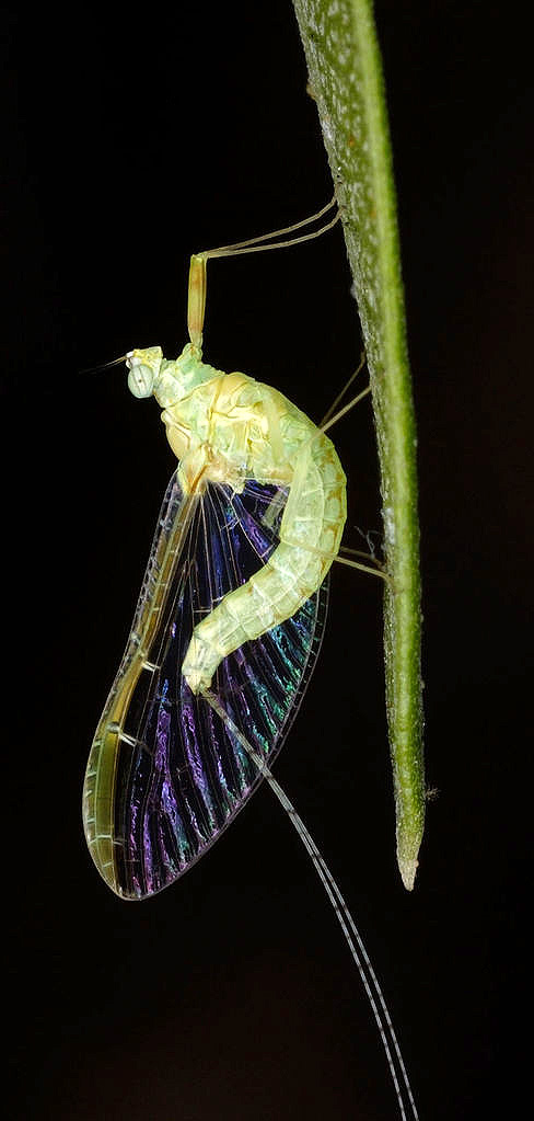 A mayfly (order Ephemeroptera) found on an Oleander plant (Italy).